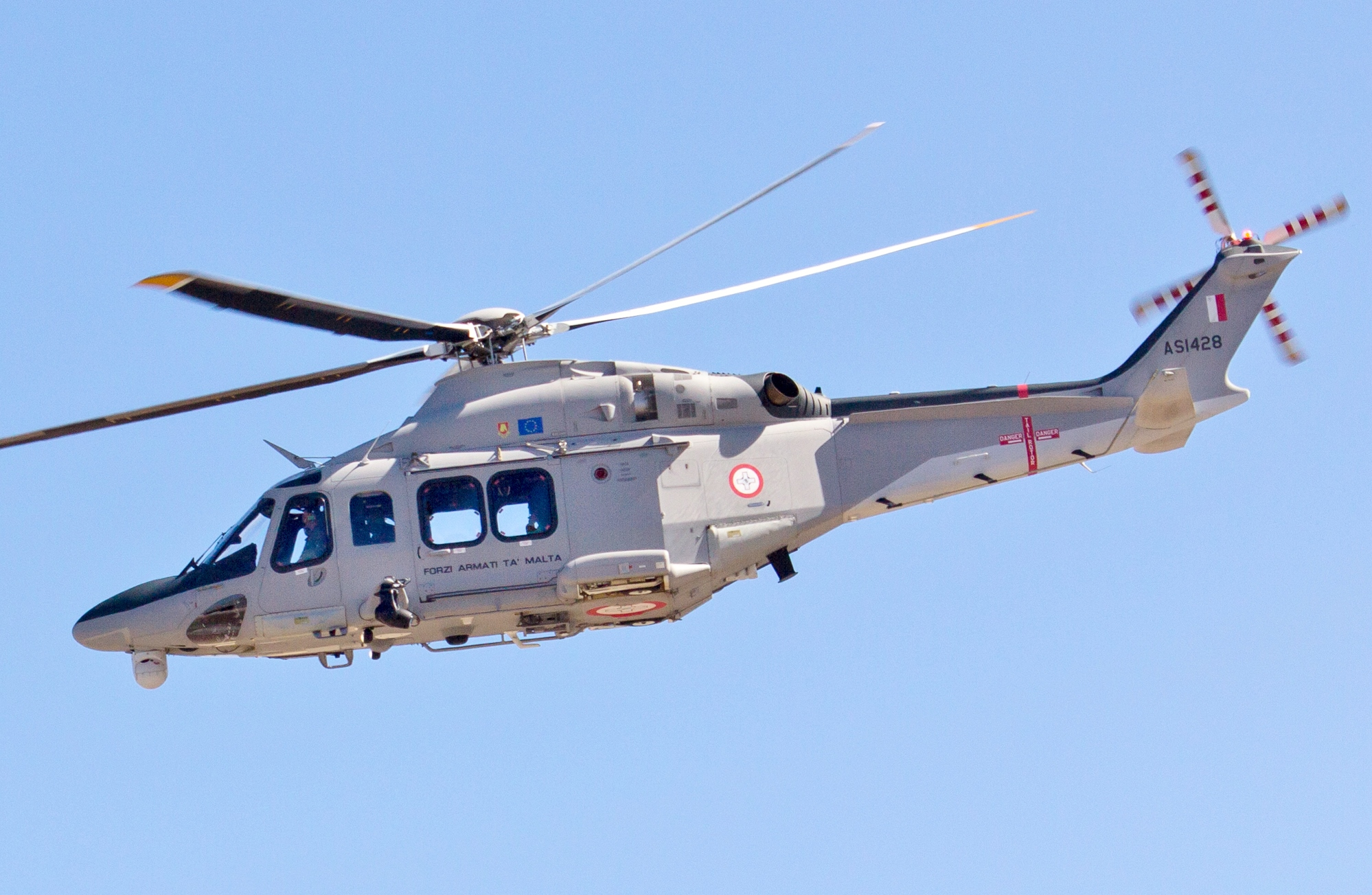 AFM AW139